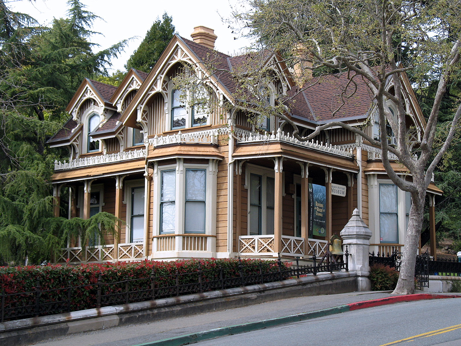 National Register of Historic Places in Marin County, California. Boyd House, 1125 B St., San Rafael, CA. Now houses the Marin History Museum. Photographed from the east side of B St. near the intersection with Mission Ave.